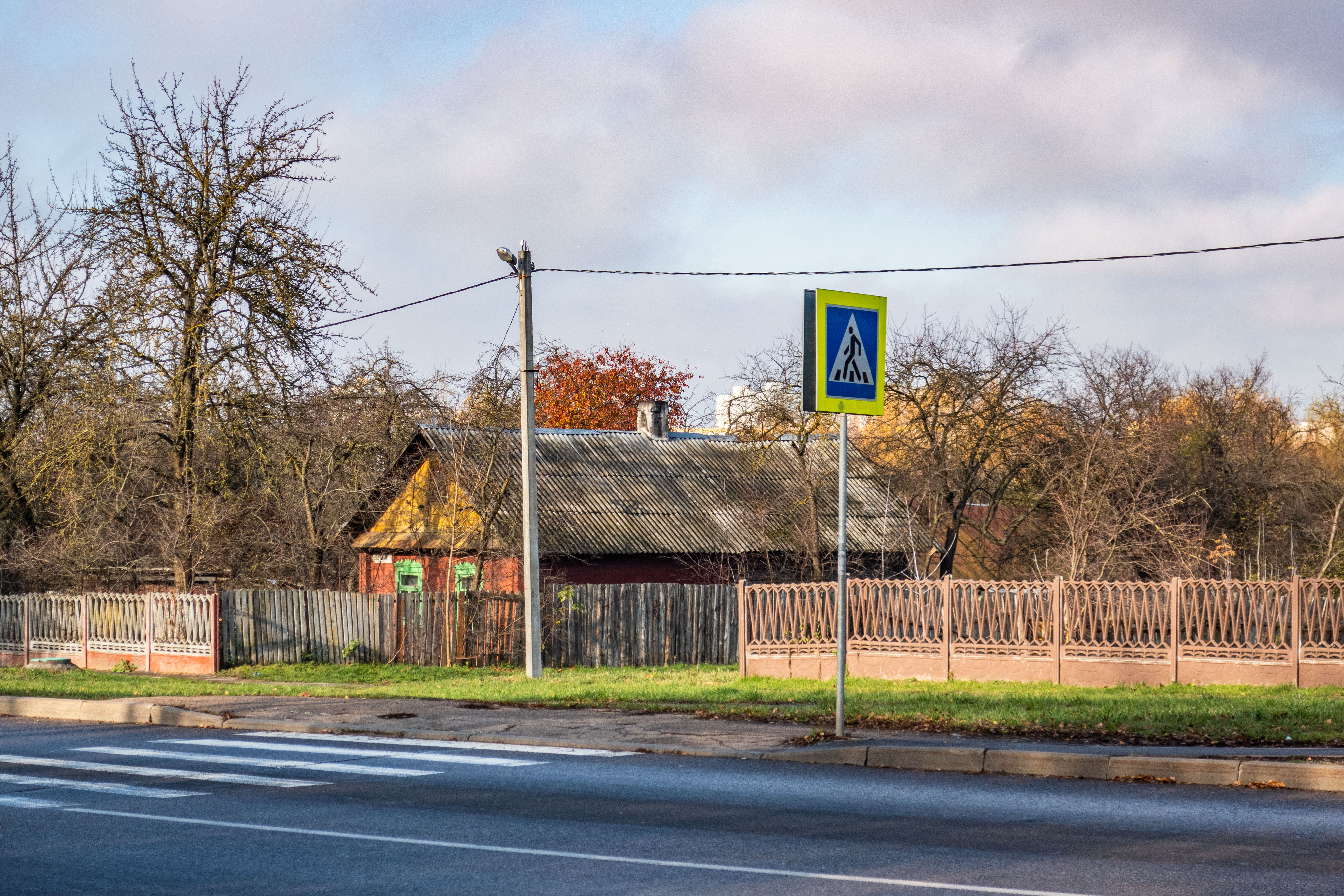 Former Karziuki village. Haladzieda street. Minsk, Belarus